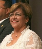 Picture of the Mayor of Ponce Dr. Maria Meléndez Altieri during the inauguration ceremony of the local legislature.